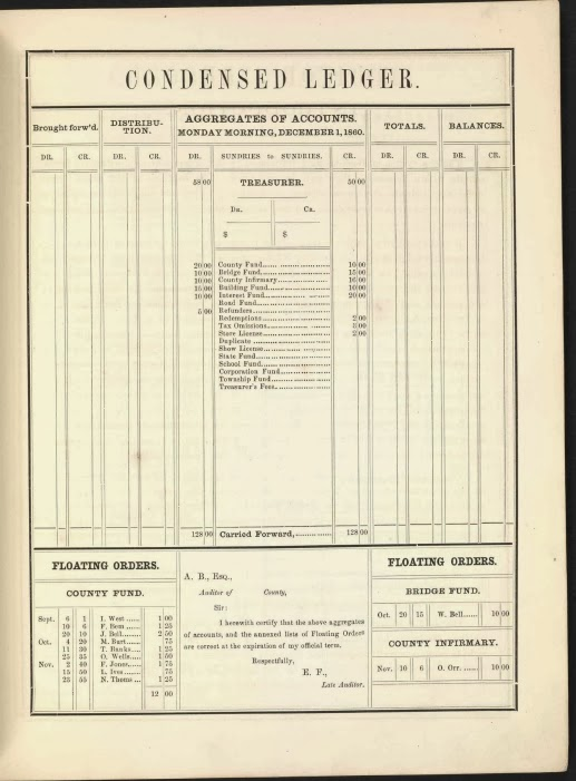 Page illustrating the condensed ledger style from Selden's book.